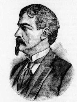 American politician and diplomat, Henry Clay Evans (1843–1921)